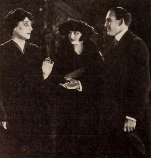 Still from the American drama film Deadline at Eleven (1920) with Emily Fitzroy, Corinne Griffith, and James Bradbury Jr., on page 66 of the March 6, 1920 Exhibitors Herald.